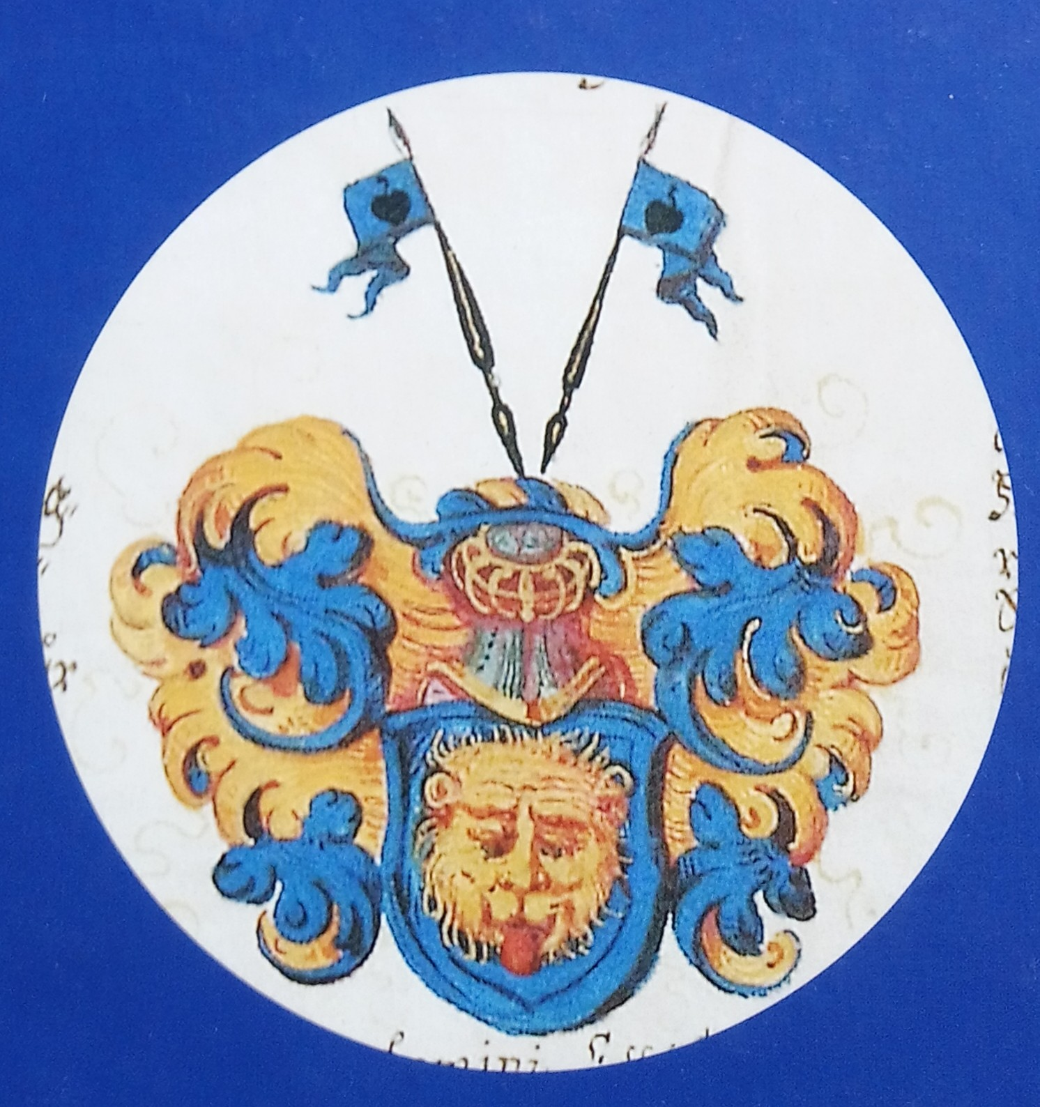 Coat of arms in Blåfield family patent of nobility , original year 1476, copy created 1636.